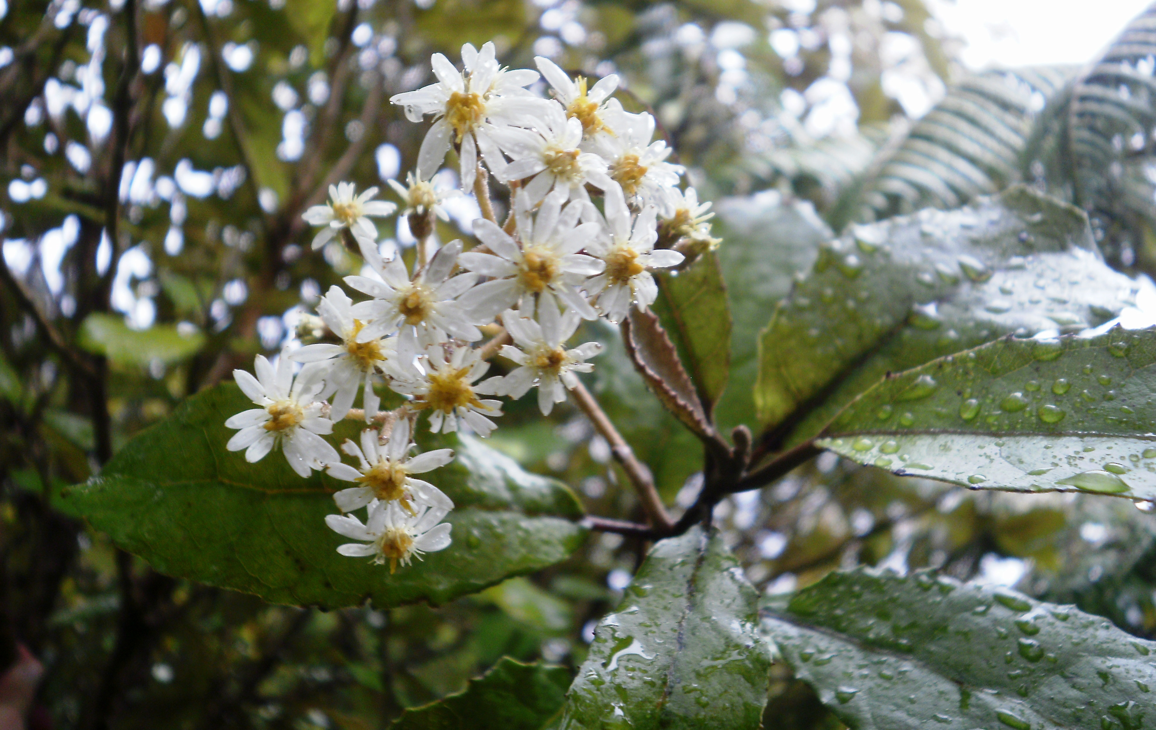 Olearia rani, heketara, flowering in Wellington, New Zealand.